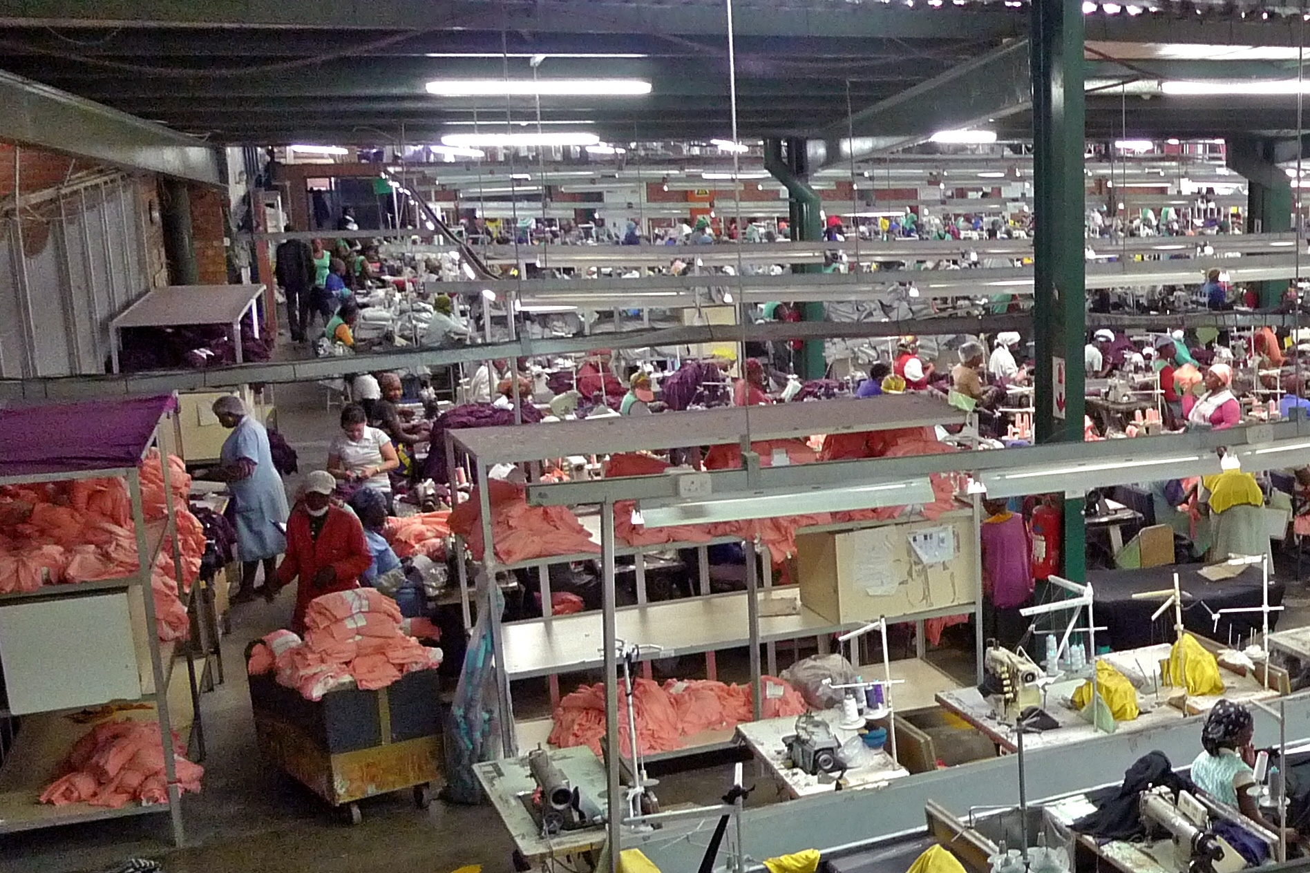 African women working in a Chinese-owned factory in Lesotho